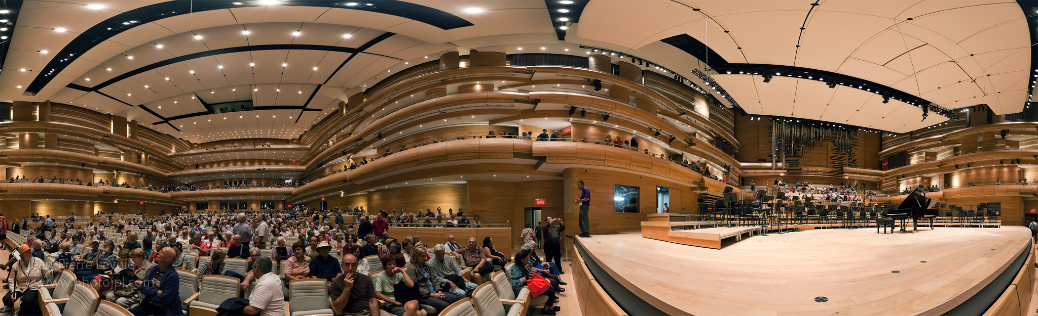 The Maison symphonique de Montreal inaugurated in September 2011. 360 degrees panoramic photography.